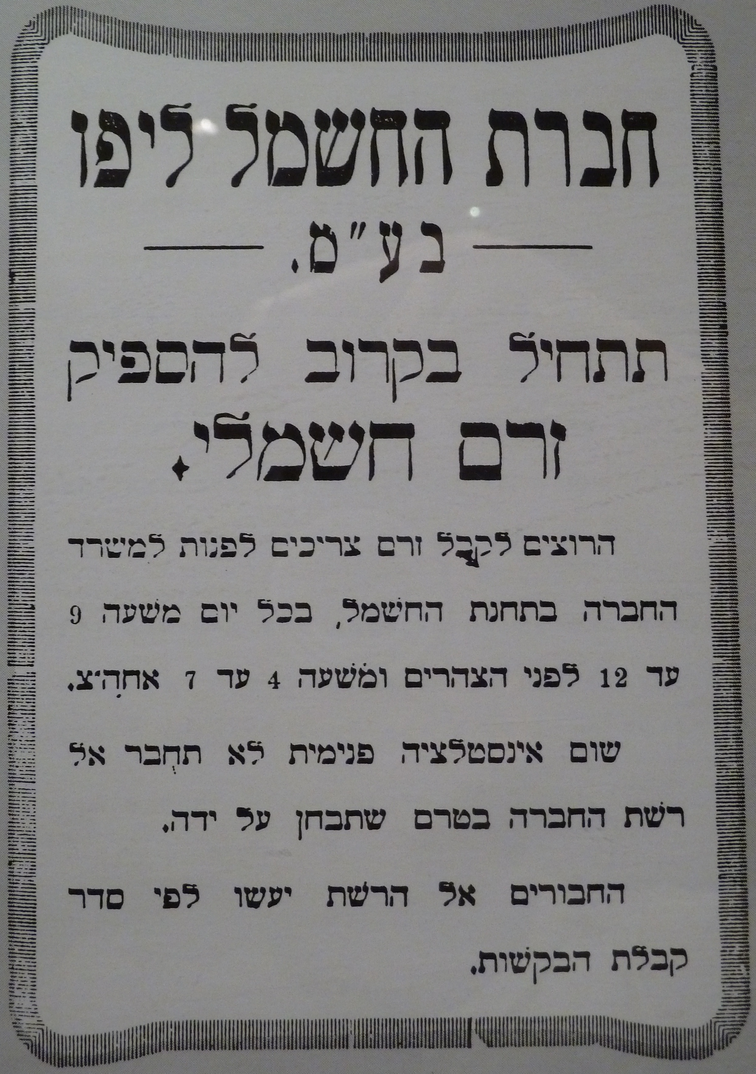 Tel Aviv historical ads from the 1920s and the 1930s. An exhibition at the Shalom Meir Tower